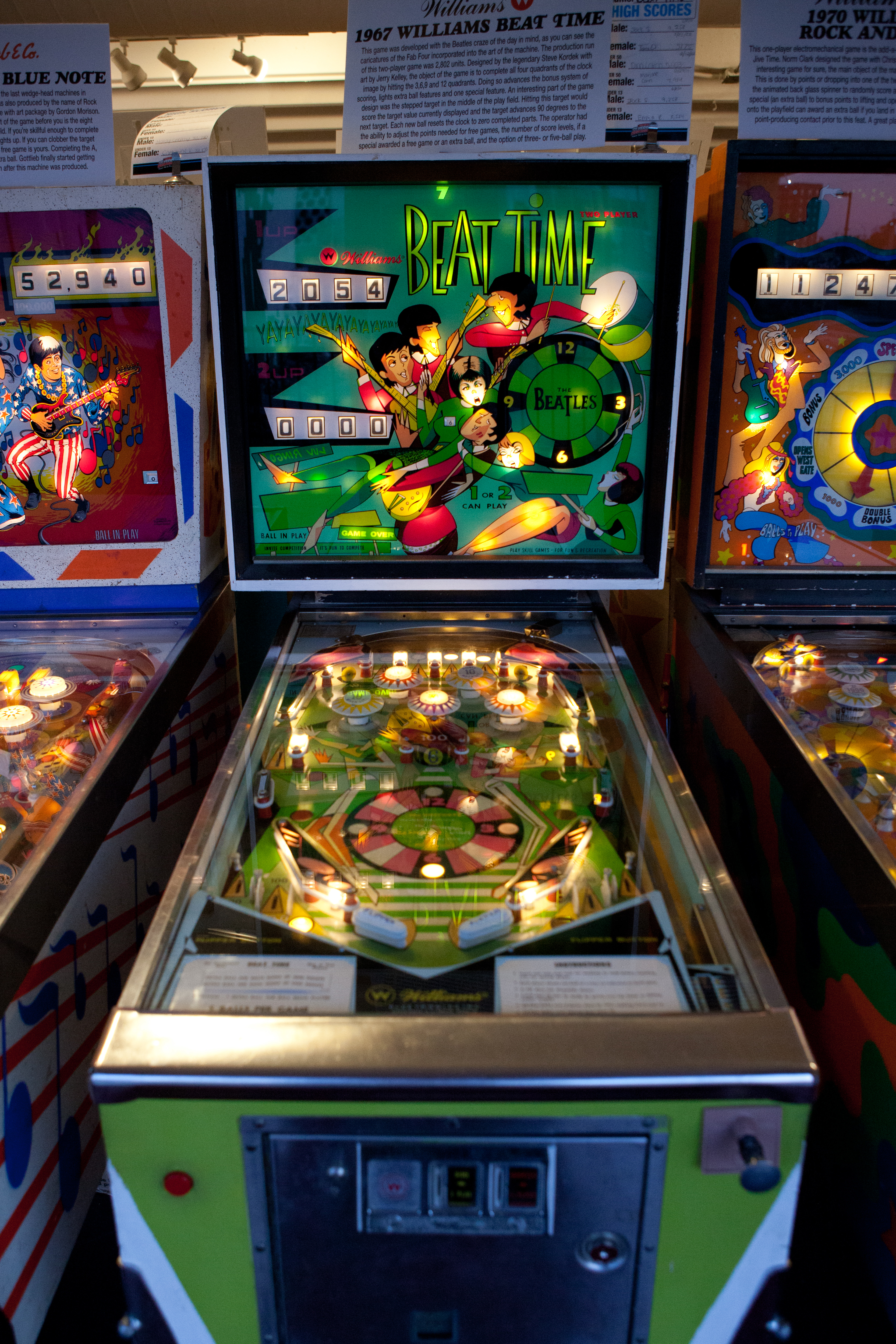 1967 Williams Pinball Beatles themed game, "Beat Time". At the Silverball Museum in NJ.